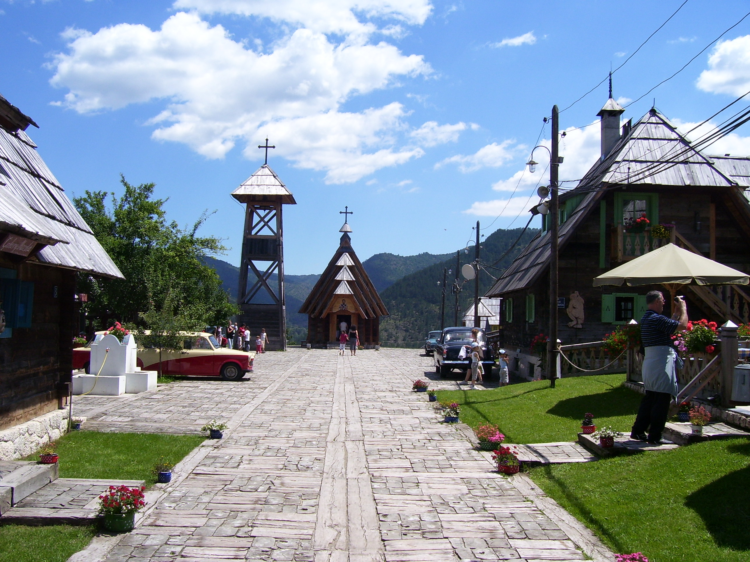 Drvengrad, Kustendorf, open air museum village, Mokra Gora, near Užice, Serbia.